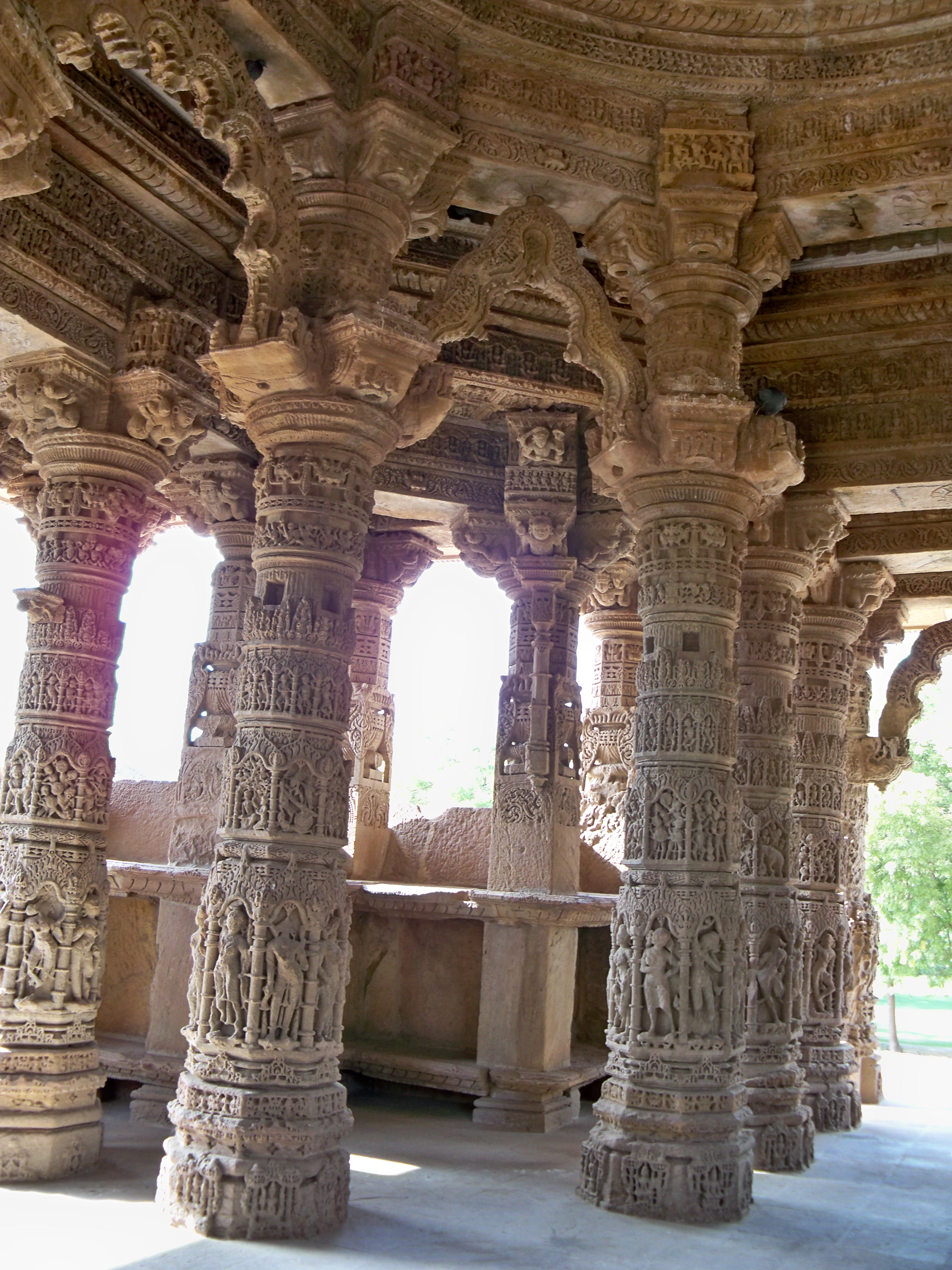 Modhera Sun Temple Sabhamandap Torna